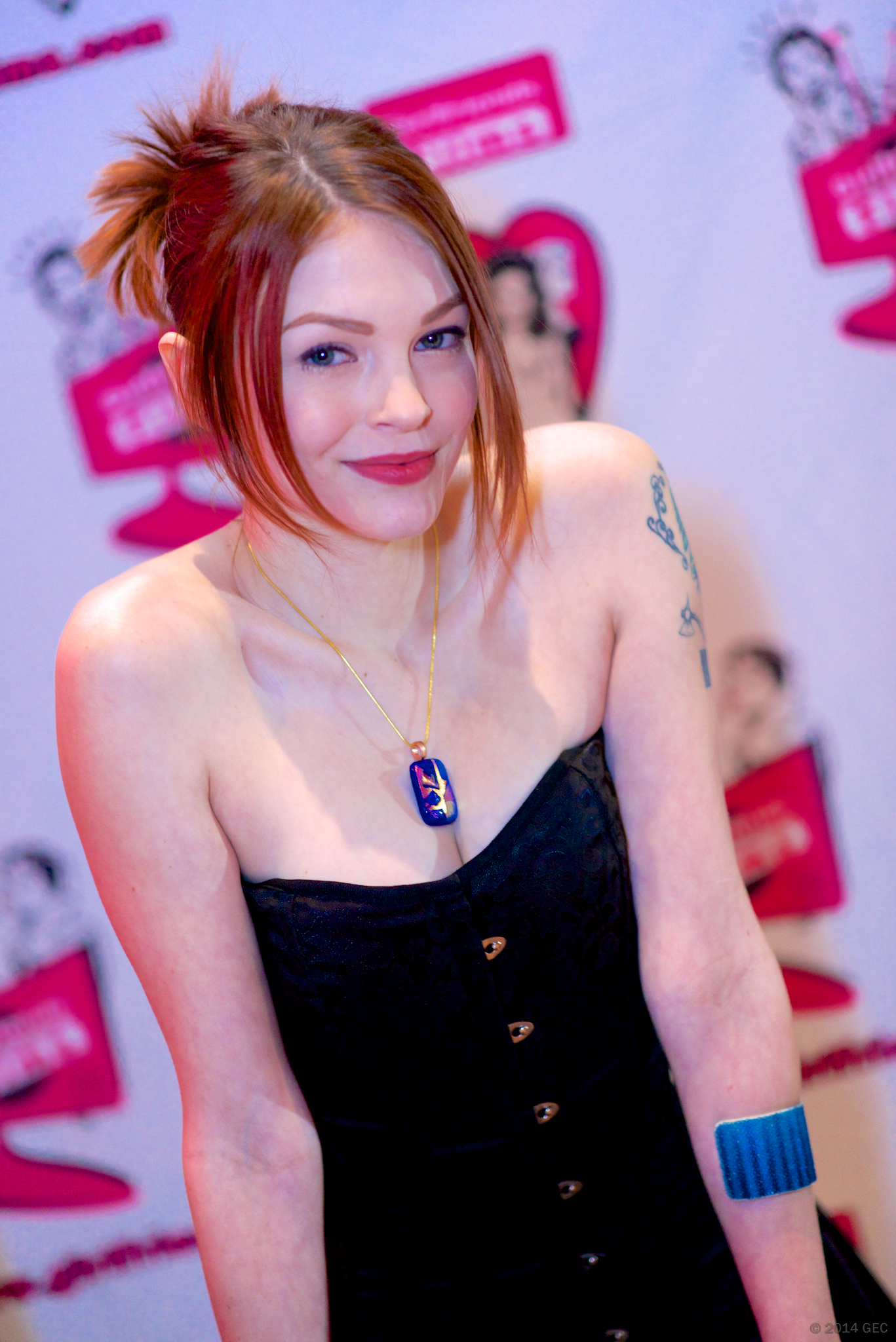 2014 AVN Adult Entertainment Expo AEE at Hard Rock Hotel - Las Vegas. 2014 © GEC.